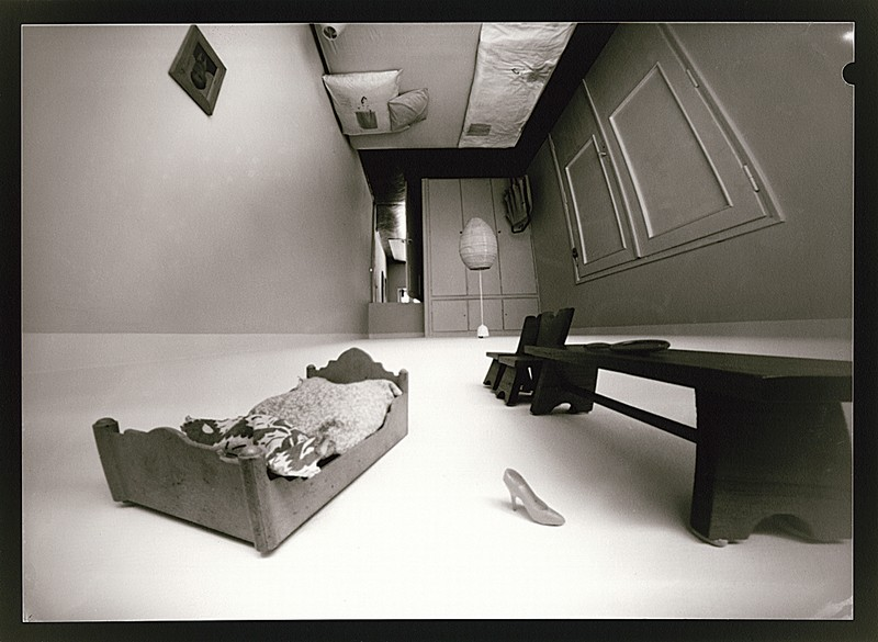 Tomasz Dobiszewski, Paligenesis, 2004